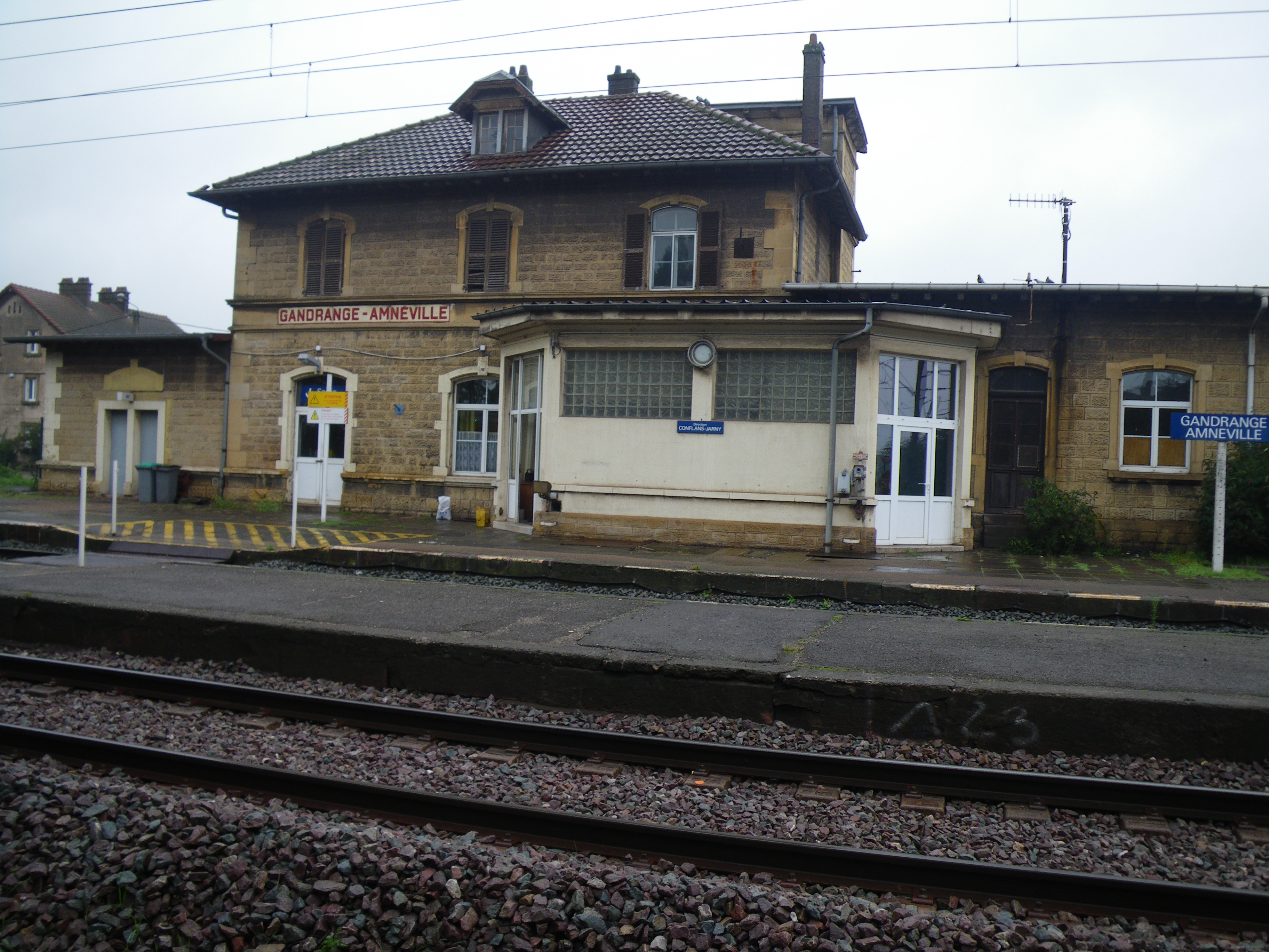 The train station of Amnéville, Moselle, France.